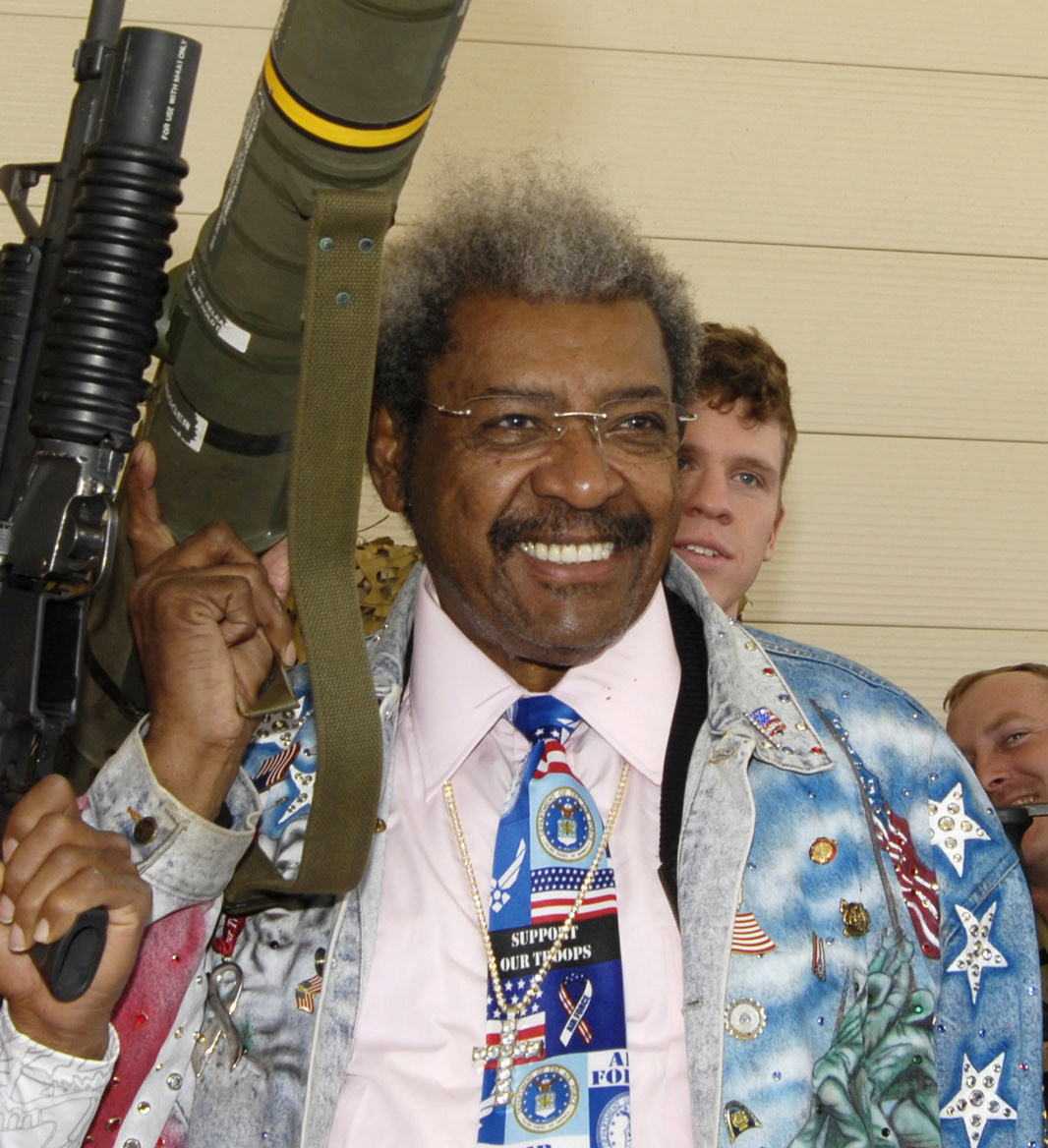 American boxing promoter Don King posing with an AT-4 rocket launcher during a visit to the 720th Advanced Skills Training flight